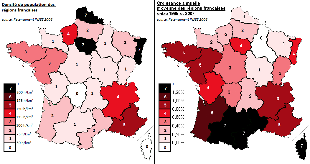 demography of french regions